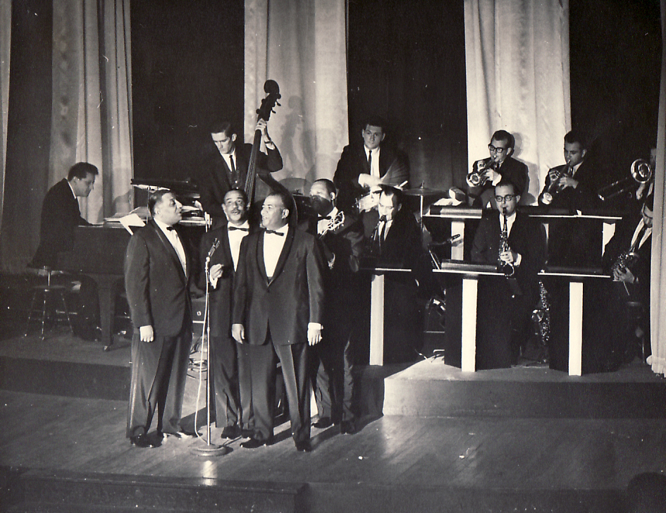 The Mills Brothers (front); Chris Gage - piano; Stan "Cuddles" Johnson - bass; Jimmy Wightman - drums; Wally Snider - tenor; Fraser MacPherson - alto.